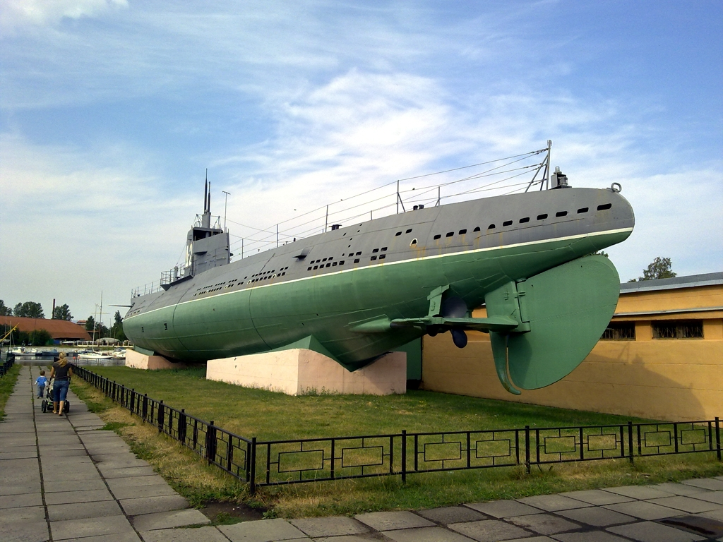 D-2 Narodovolets, a Dekabrist class submarine, now standing as a monument / museum in St. Petersburg, Russia